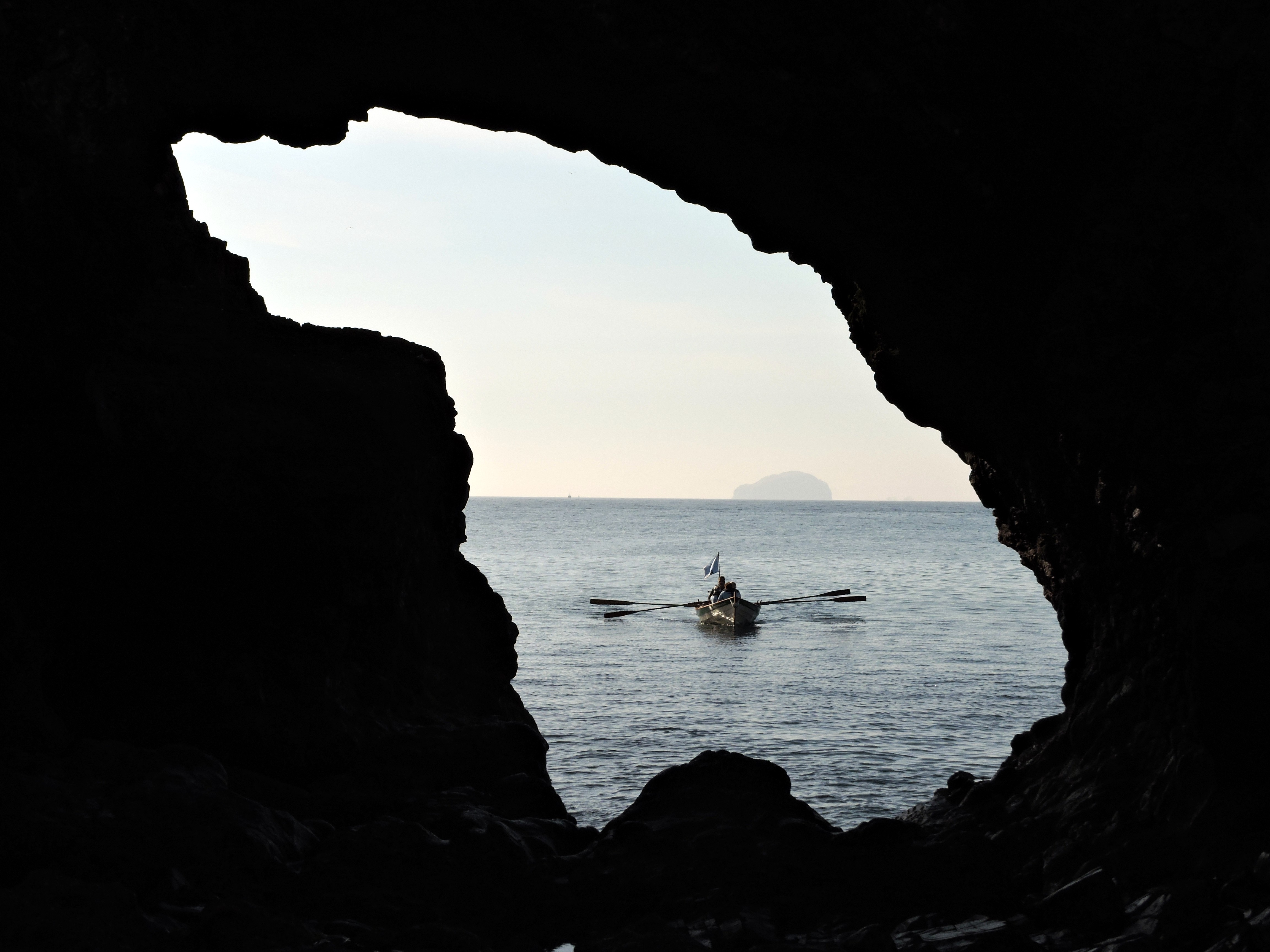 DCRC rowing on a fine day off Dunbar.